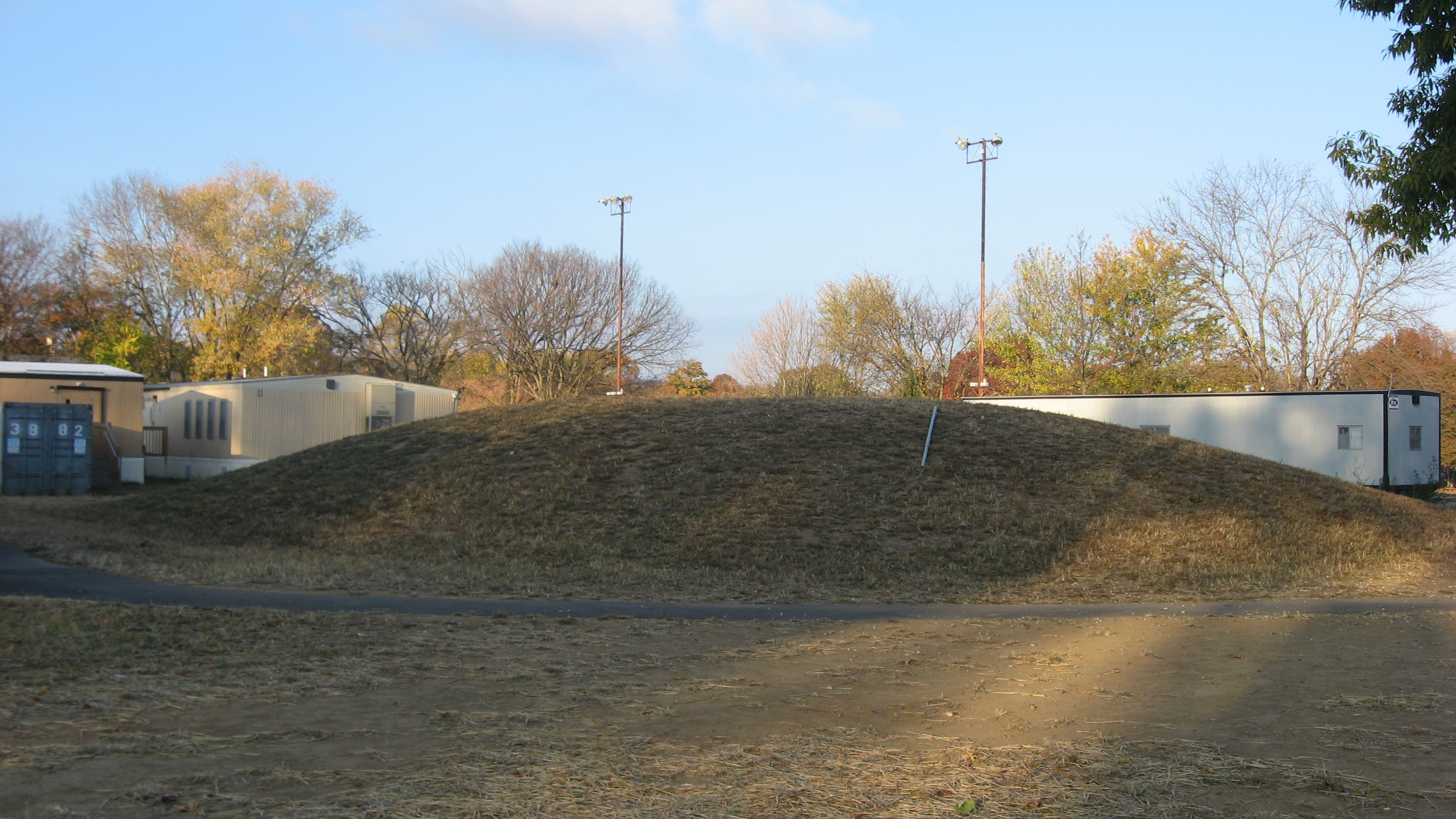 Eastern side of the Story Mound, located in a community park off Gracely Drive in the Sayler Park neighborhood of Cincinnati, Ohio, United States. Built by the Adena culture, the mound is an archaeological site and listed on the National Register of Historic Places.